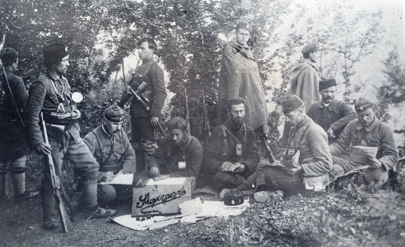 Portrait of Todor Alexandrov and his cheta.